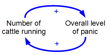 Causes of cattle stampede shown as a self-reinforcing (positive) feedback loop.